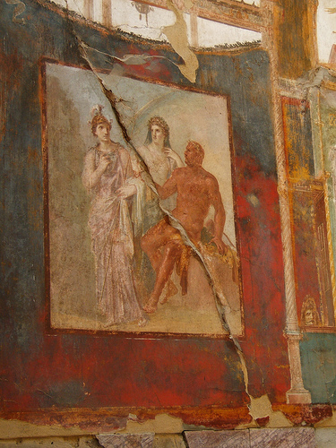 Hall of the Augustals (Herculaneum) - Hercules in Olympus with Juno and Minerva.